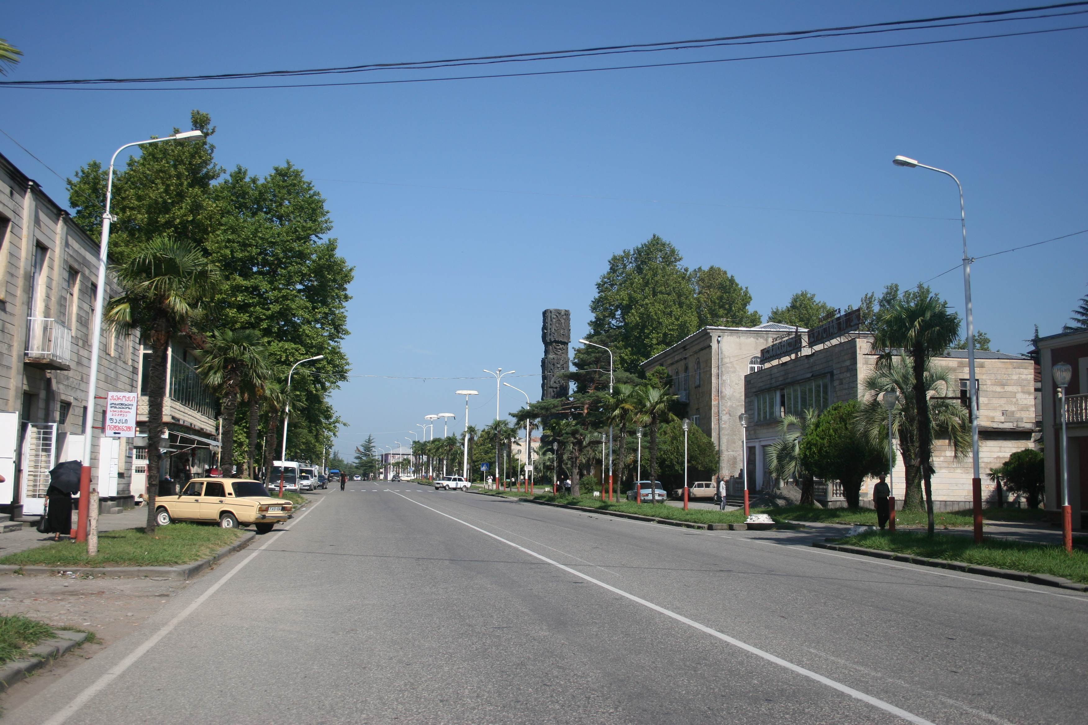 Main thoroughfare of Abasha, Georgia